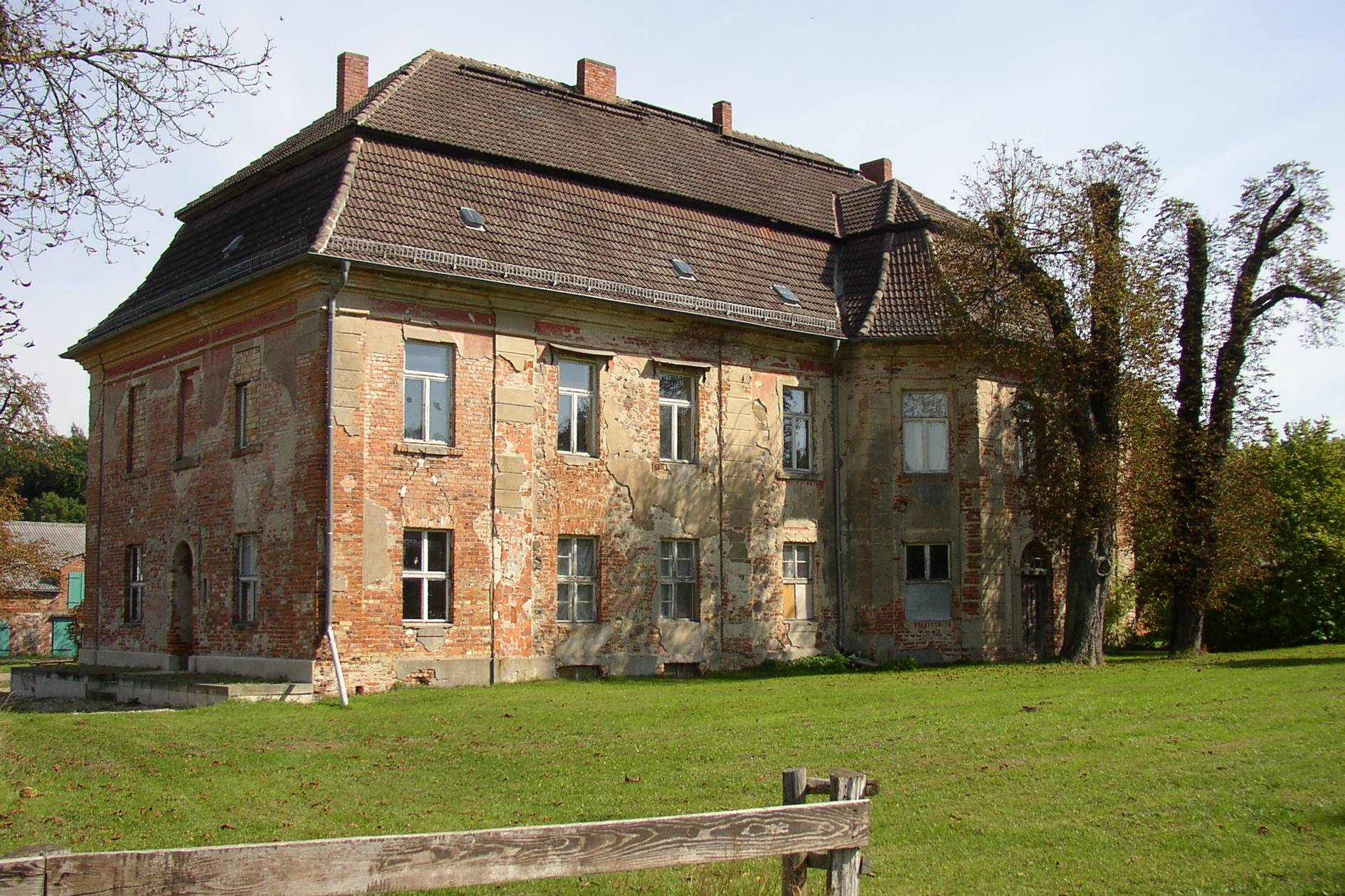 Manor house in Großwoltersdorf-Zernikow in Brandenburg, Germany